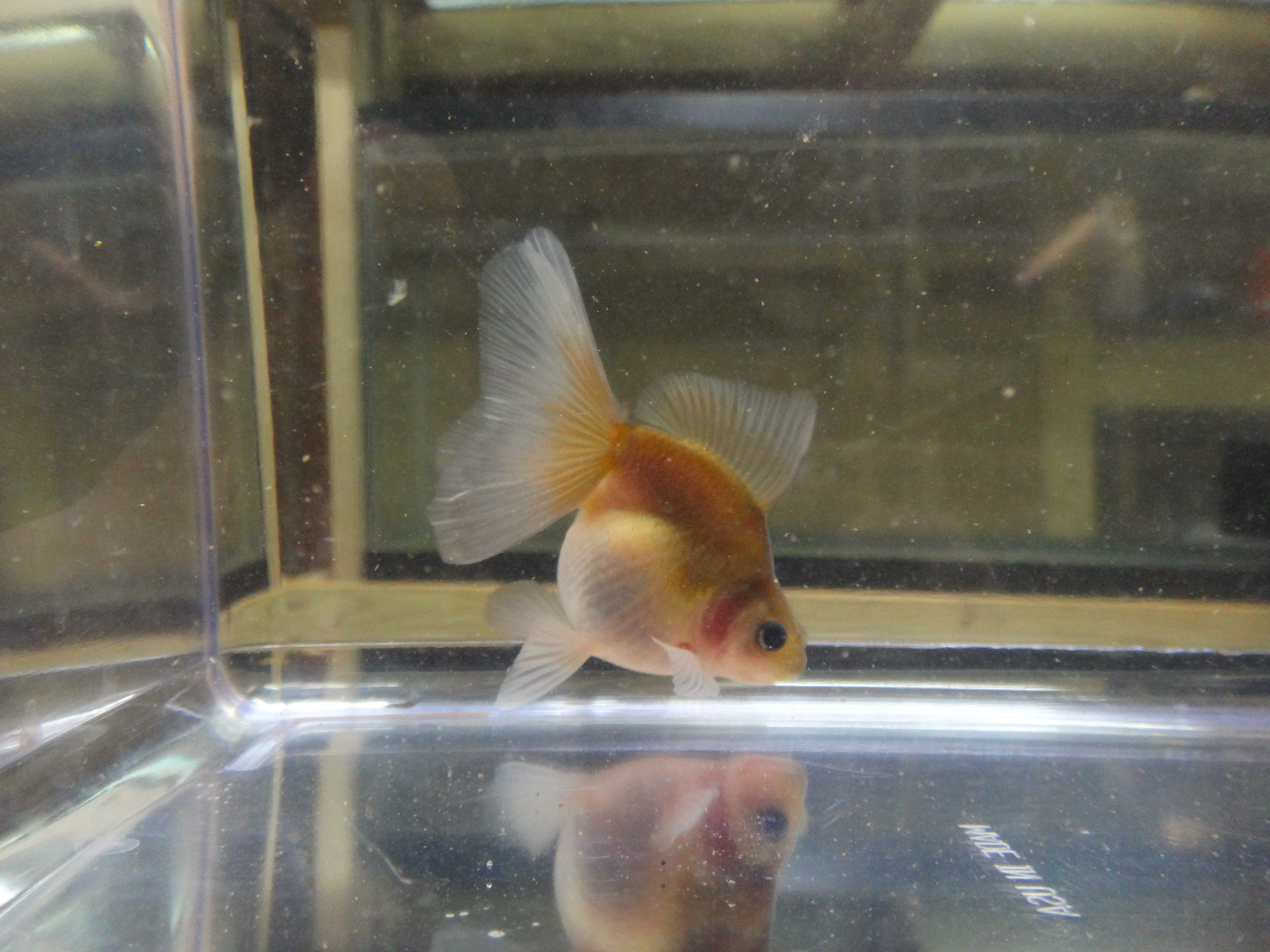 English Veiltail Goldfish